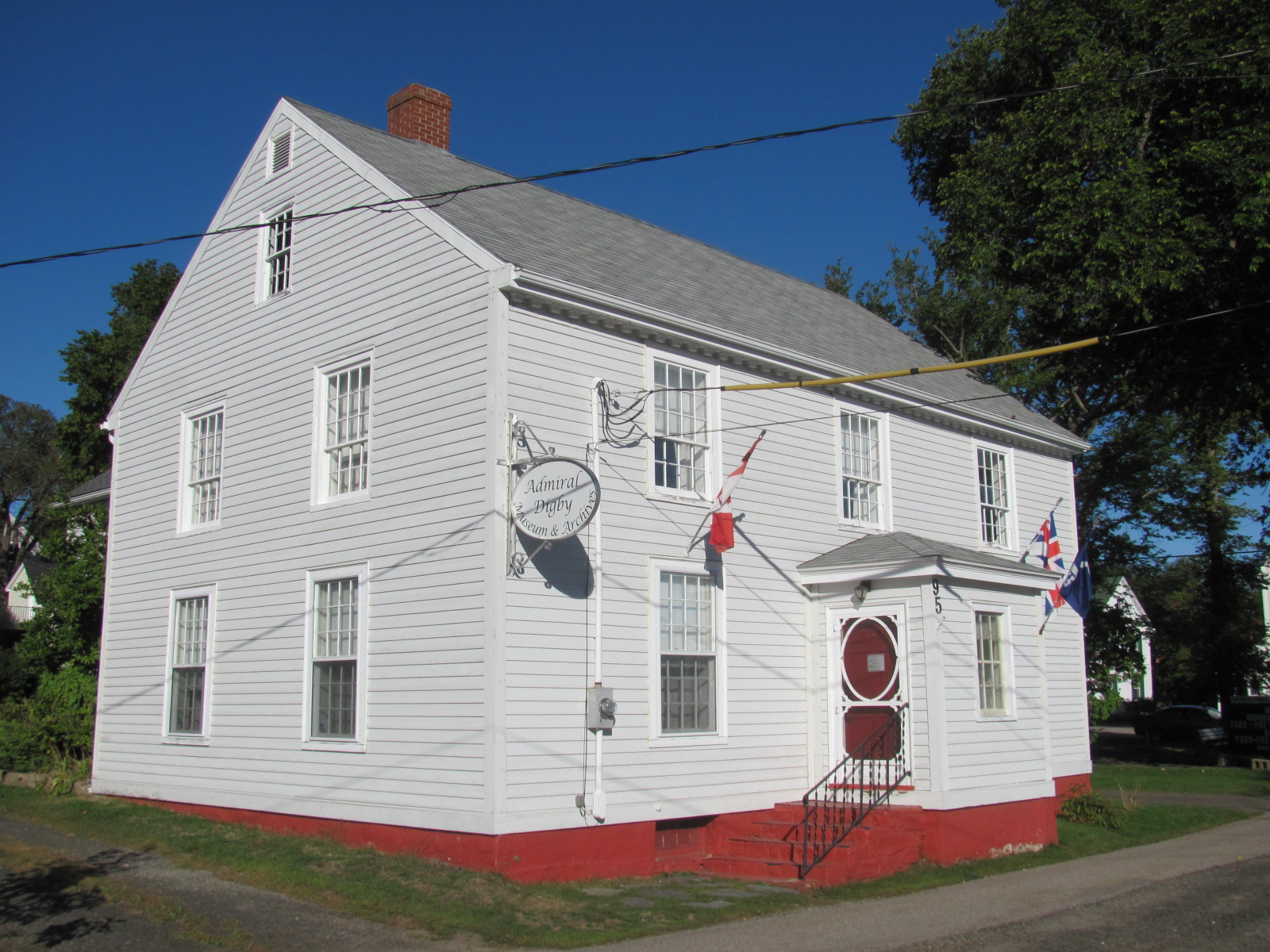 The Admiral Digby Museum in Digby, Nova Scotia, located in the restored Woodrow/Dakin House.